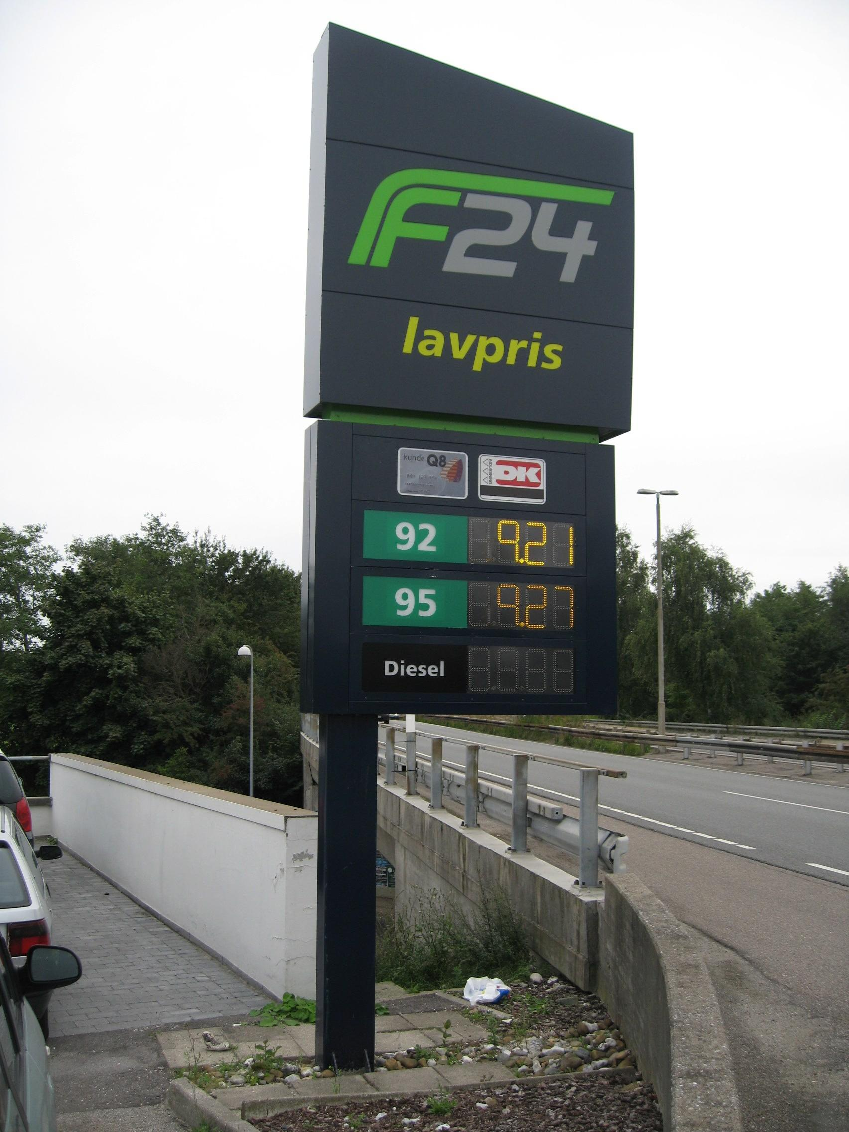 F24 discount fuelretailer